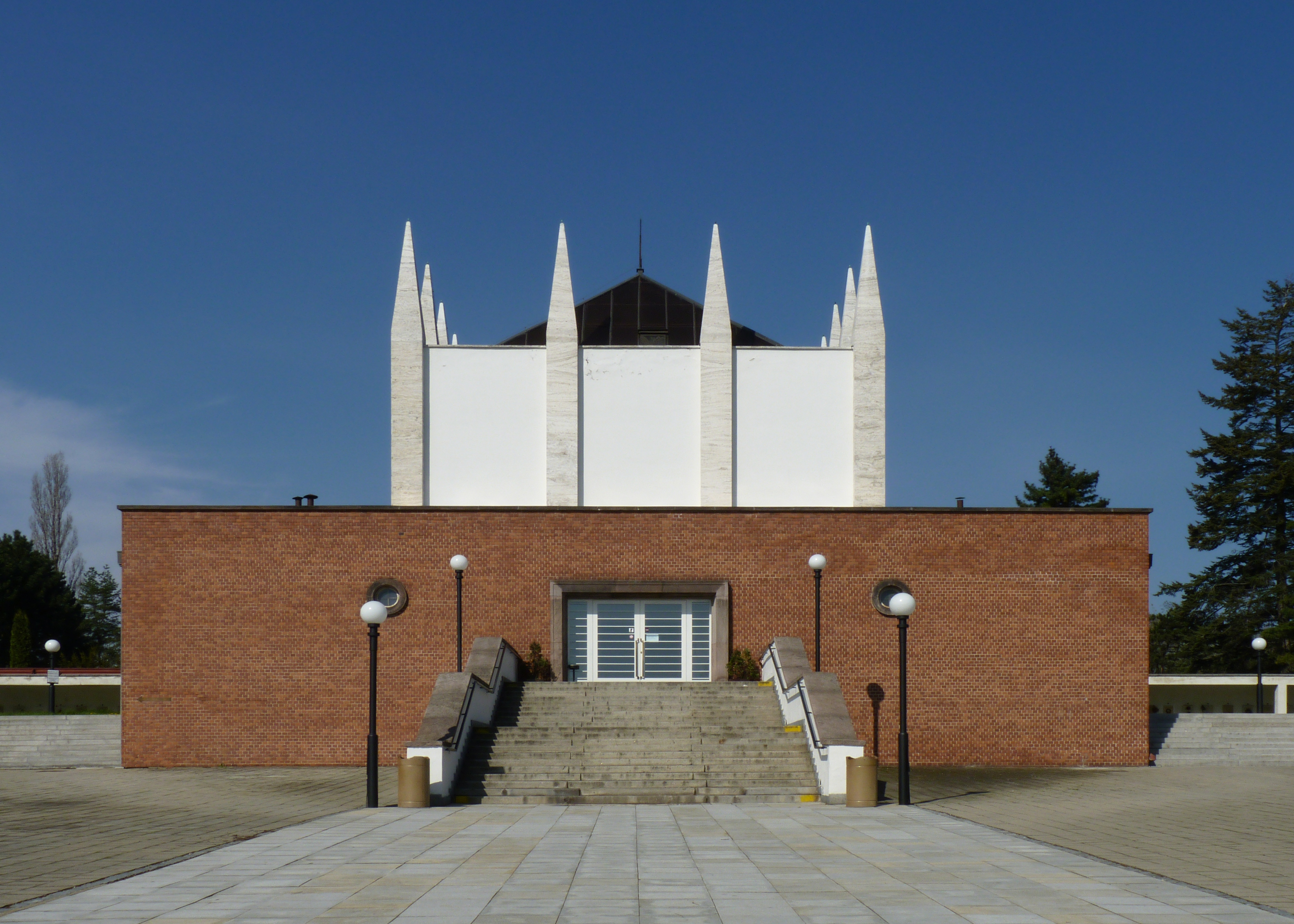 Crematorium in Brno, South Moravian Region, Czech Republic